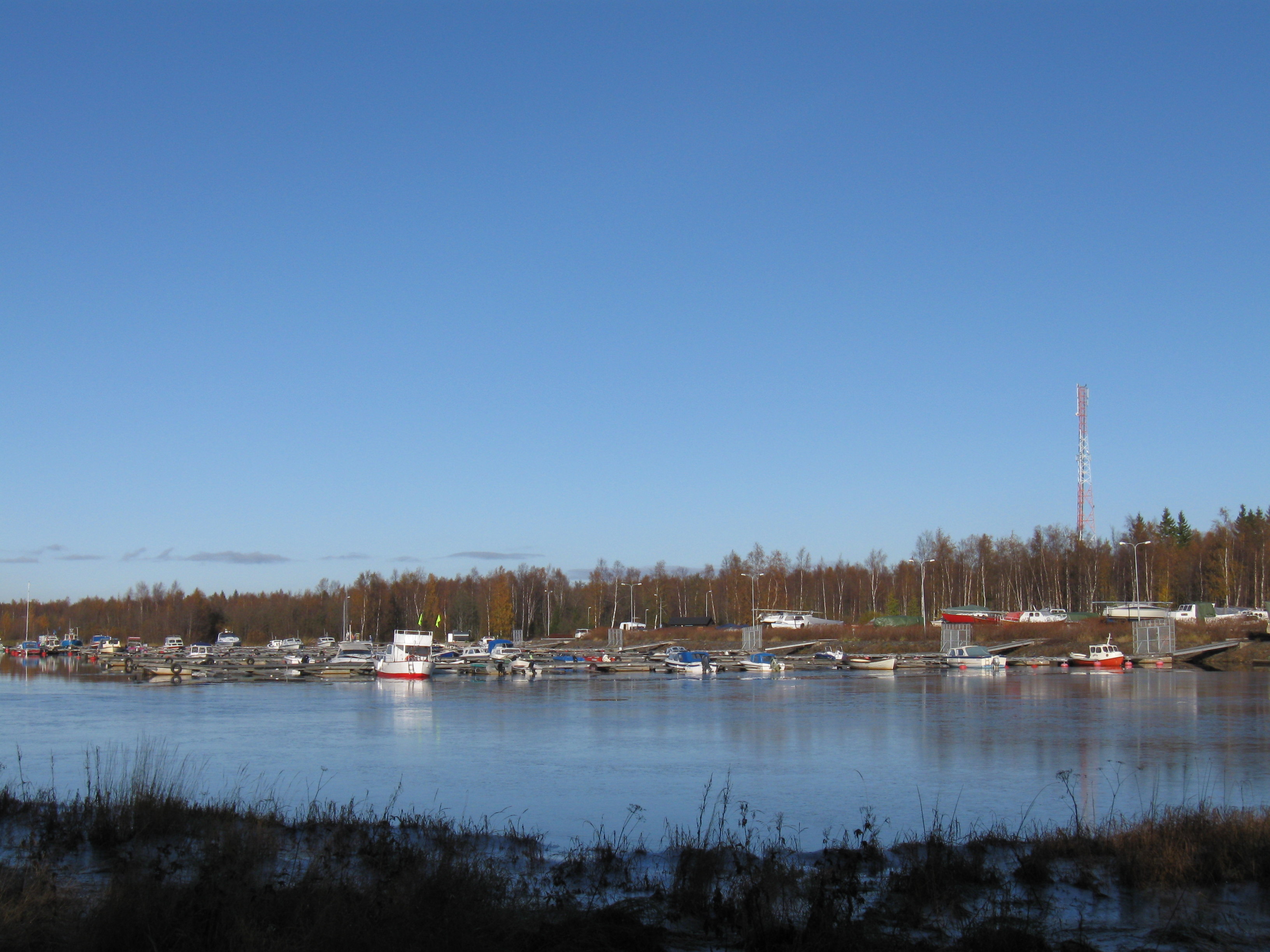 A boat harbour in Rajahauta, Oulu, Finland.